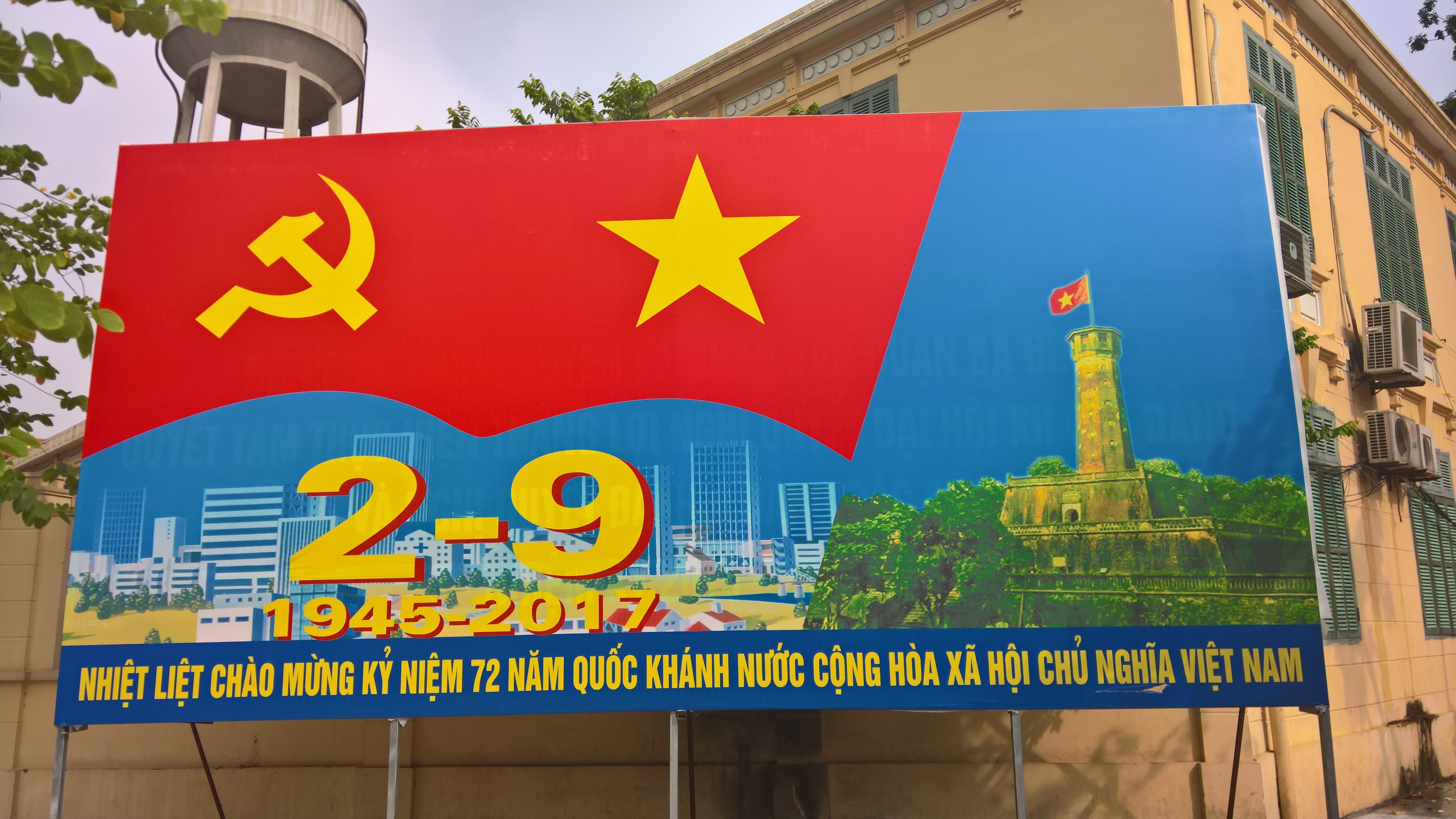 To celebrate the independence of North-Vietnam from France.